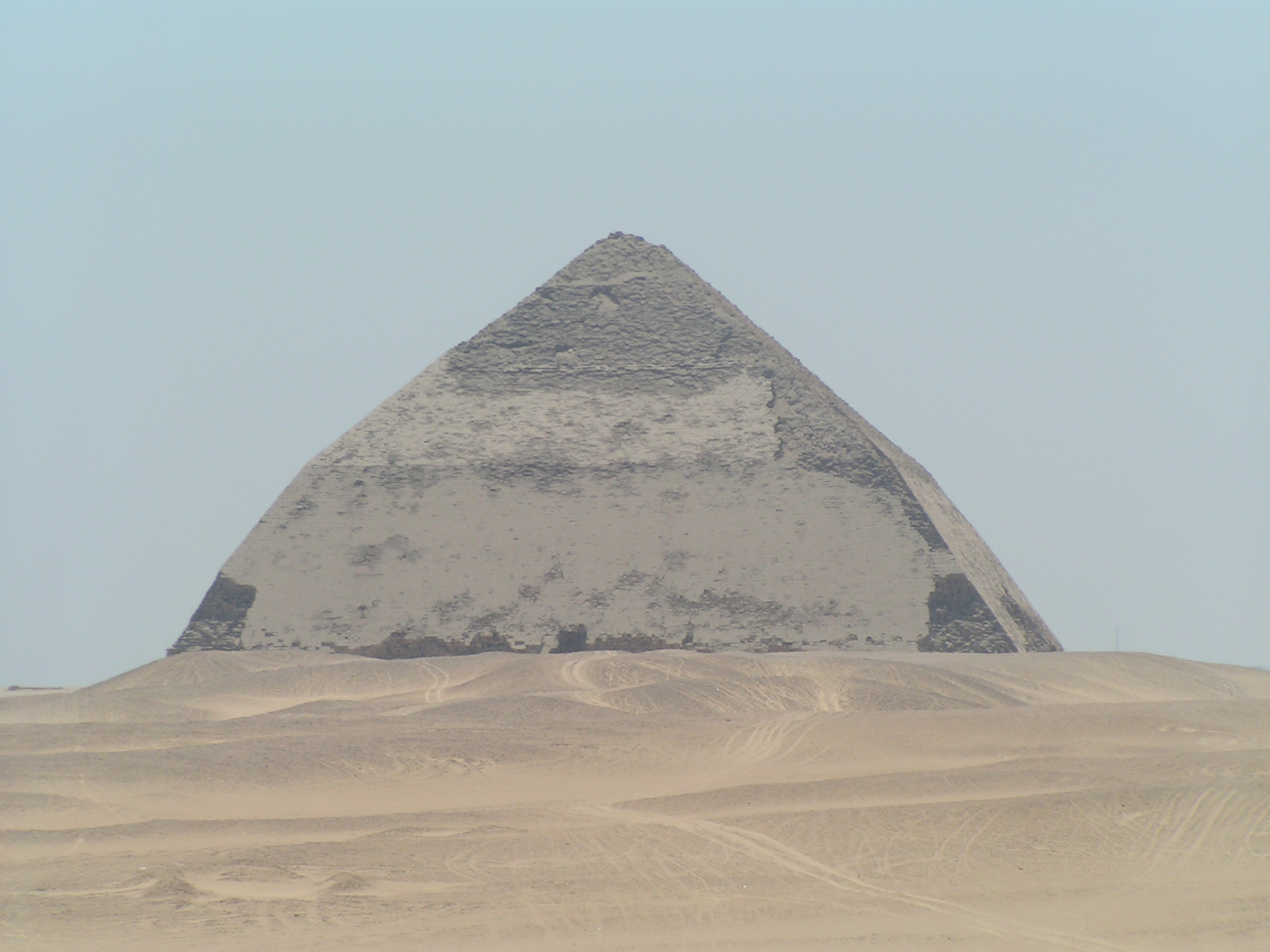 Snofru Bent Pyramid